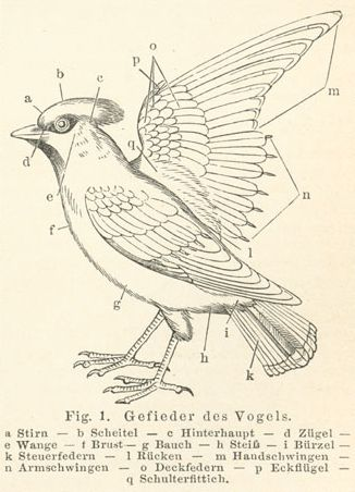 Plumage of a bird